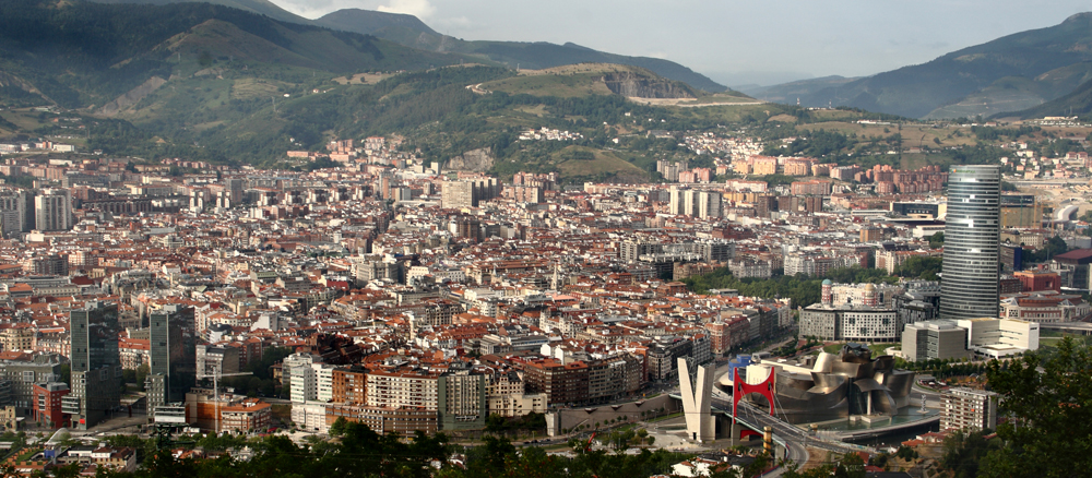 Bilbao